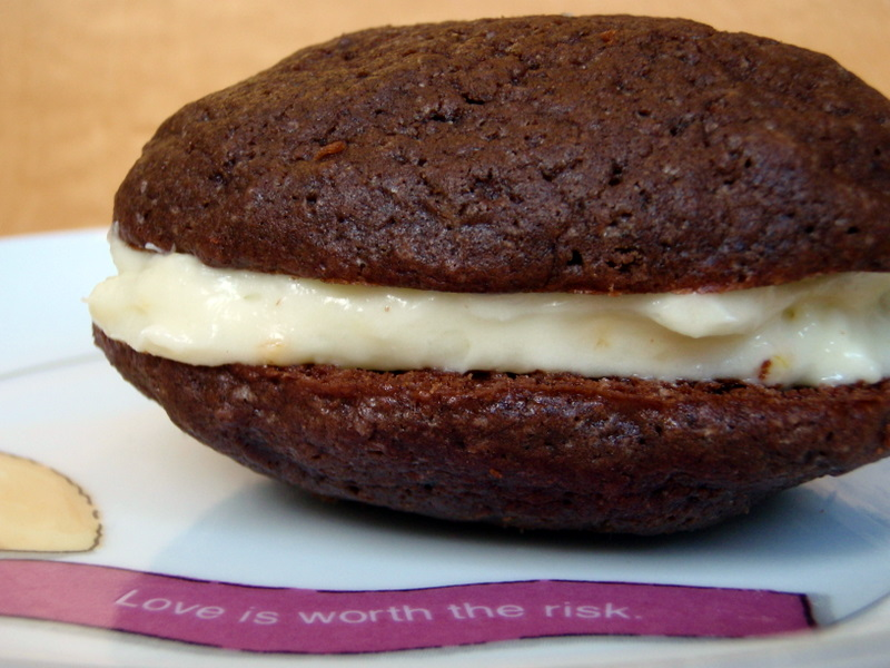 Whoopie pie with orange cream cheese buttercream.